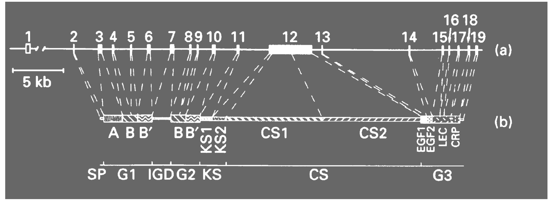 Estructura del gen